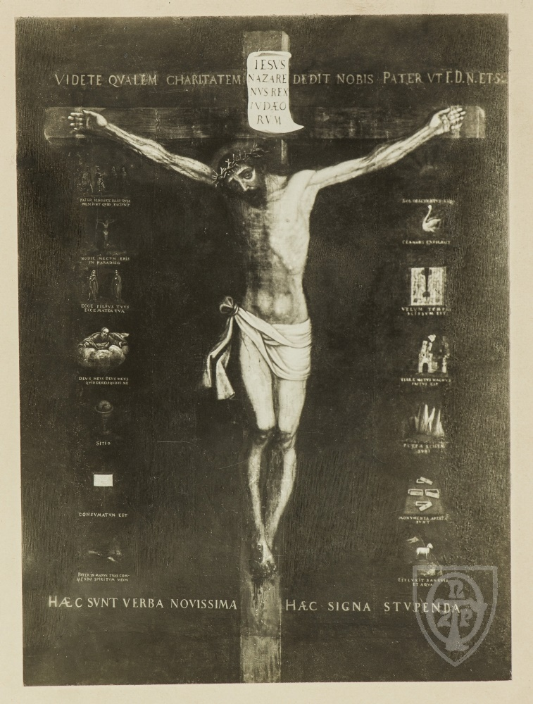 Photograph of crucifix in altair of Franciscans Monastery in Włocławek by Karol Szałwiński (1869-1906). Currently it is owned Towarzystwo Opieki nad Zabytkami (Care of Monuments Society).